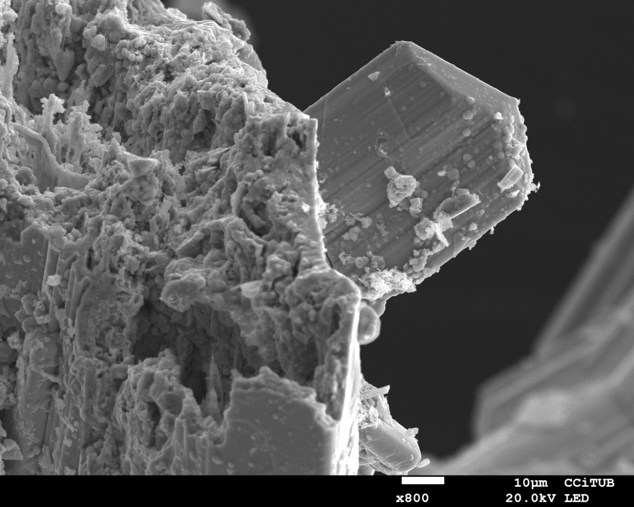 Locality: Santa Matilde Quarry, Berja Mines, Las Herrerías, Andalusia, Spain Size: 7.4 × 5.5 × 5.2 cm Largest Crystal: 0.40cm Description: Analyzed species. At the beginning of 2014, reviewing some specimens from the Santa Matilde open pit we found into the vugs some groups of lanceolated, fibrous or equidimensional crystals, with pink, beige to white colours, those aroused our interest. After some analysis we could identify as fluorcalcioroméite species (Ca,Na)2Sb5+2O6(F,OH), with a small percentage of oxyplumboroméite (Pb2Sb2O7, due to the presence of lead). Both species belong to the isometric system. But the observed symmetry indicated that they are, highly probable, a pseudomorph after stibnite and/or bournonite crystals. This is the first report of this mineral in the Iberian Peninsula. Nowadays this quarry is completelly filled by rubble. In this specimen we can see some aggregates, one of them predominant, formed by several lanceolated to needle-like crystals, with luster, beige to ocher tone, accompanied by aesthetic baryte crystals. We will send a copy of the analysis (SEM-EDS, XRD) to the buyer. Collected: 2004